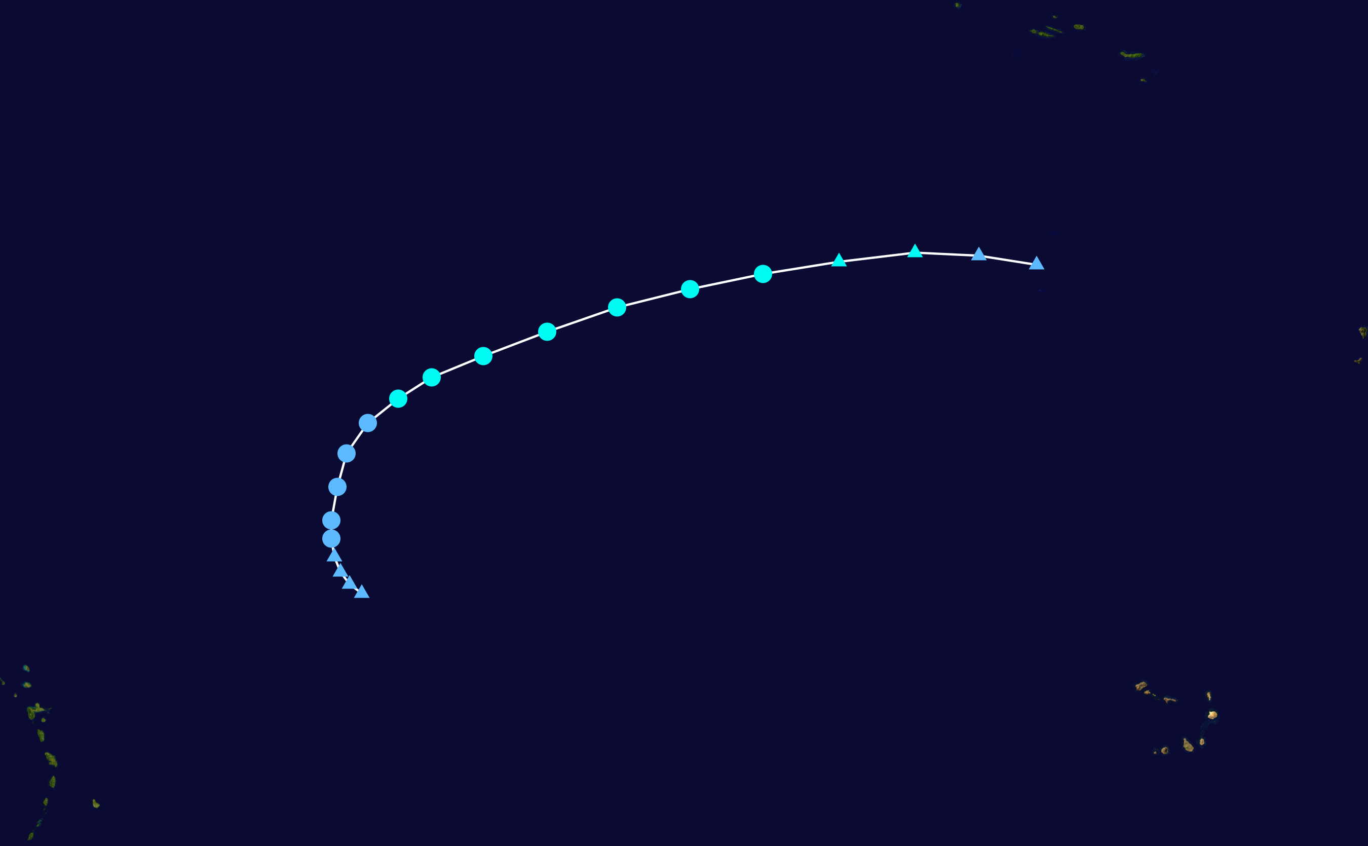 Track map of Tropical Storm Tony of the 2012 Atlantic hurricane season. The points show the location of the storm at 6-hour intervals. The colour represents the storm's maximum sustained wind speeds as classified in the Saffir–Simpson scale (see below), and the shape of the data points represent the nature of the storm, according to the legend below. Saffir–Simpson scale Tropical depression≤38 mph≤62 km/h Category 3111–129 mph178–208 km/h Tropical storm39–73 mph63–118 km/h Category 4130–156 mph209–251 km/h Category 174–95 mph119–153 km/h Category 5≥157 mph≥252 km/h Category 296–110 mph154–177 km/h Unknown Storm type Tropical cyclone Subtropical cyclone Extratropical cyclone / Remnant low / Tropical disturbance / Monsoon depression